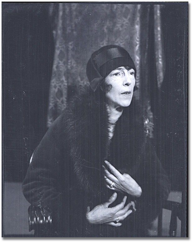 taken by Melvin Ormond Hammond on December 18, 1927. from Archives of Ontario. Public domain since author died in 1934 and image was taken before 1949.